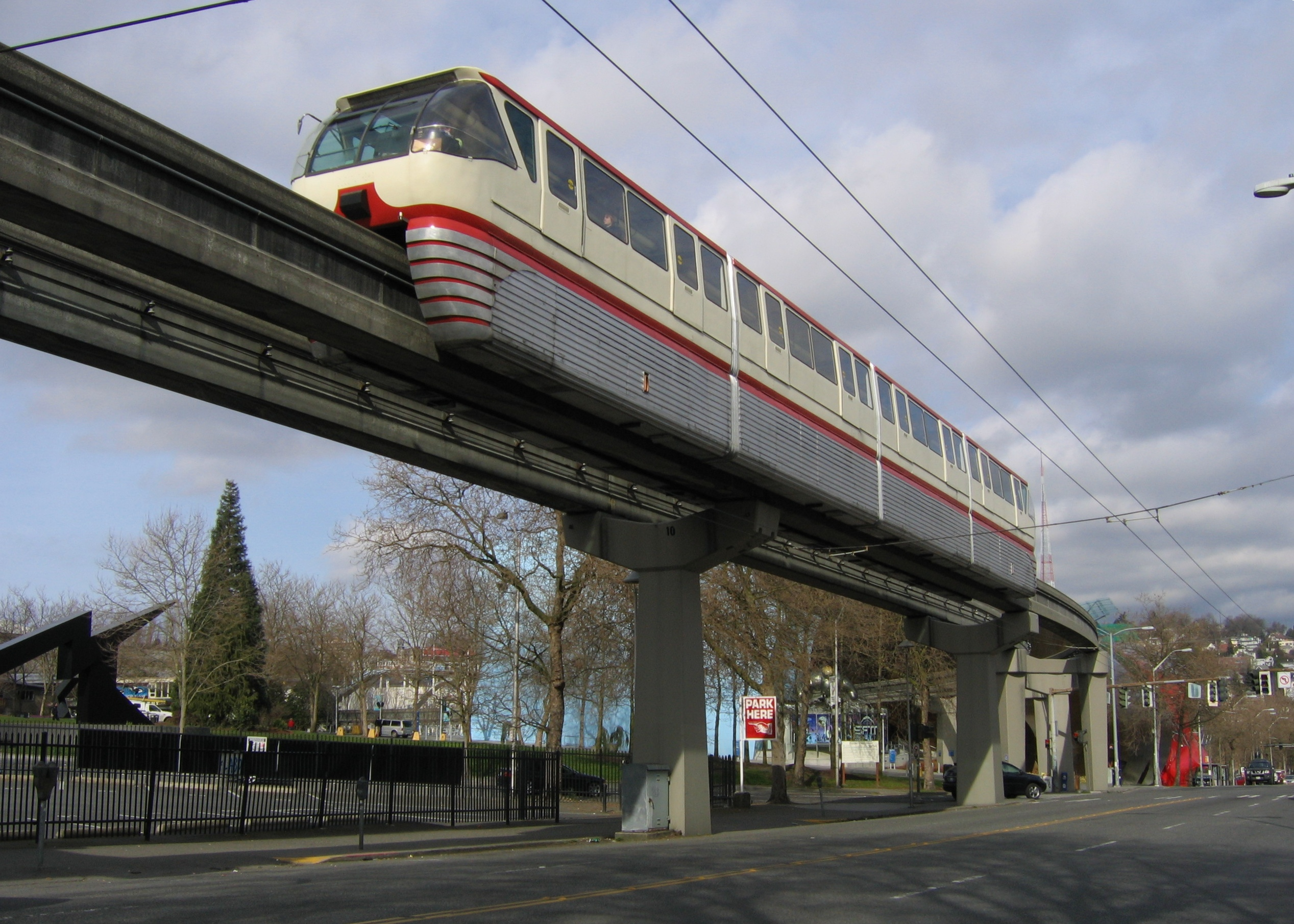 Seattle monorail train near the northern terminus.